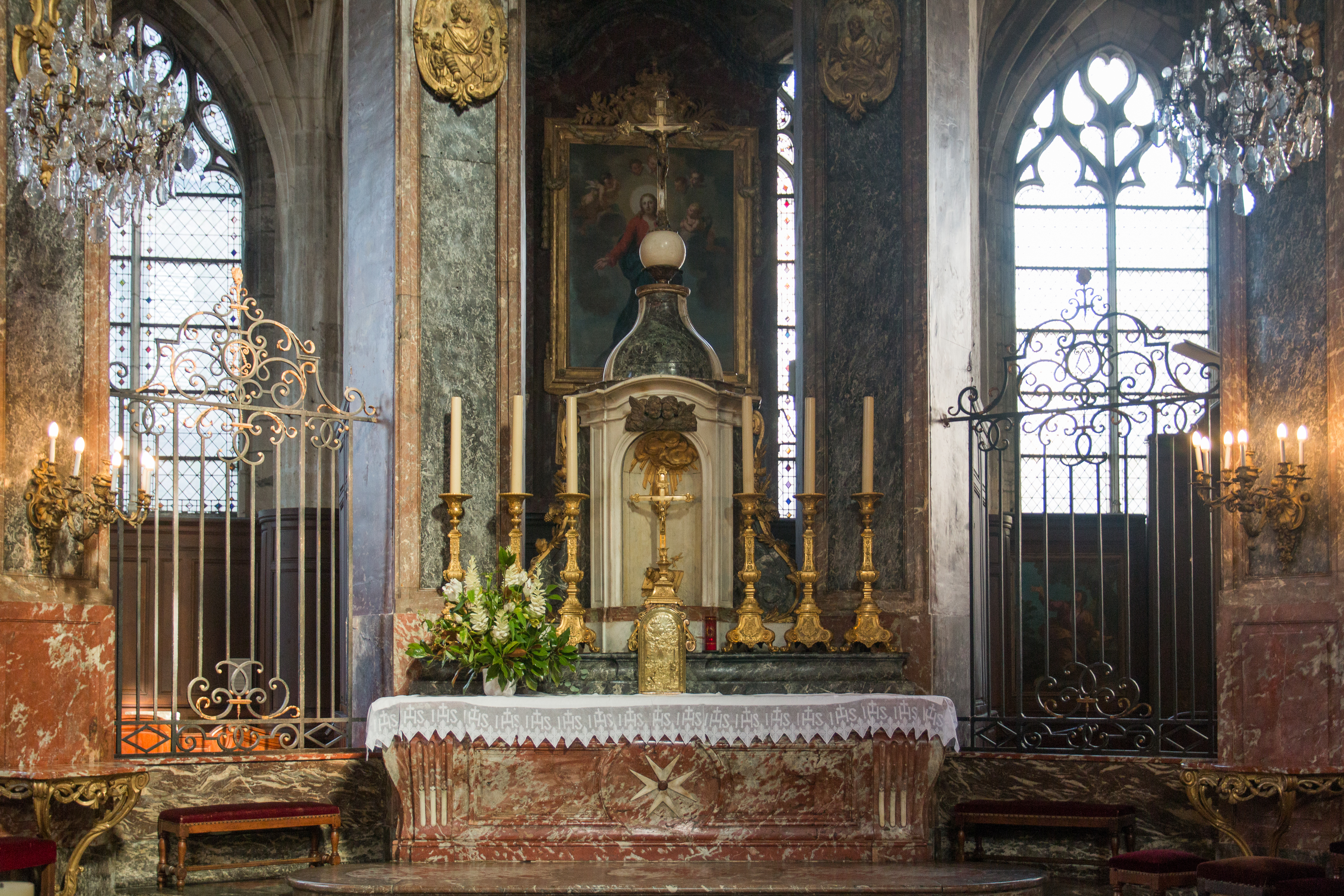 Altar tomb of brocatelle marble (red, white, gray). Gilded wood tabernacle (The Good Shepherd).